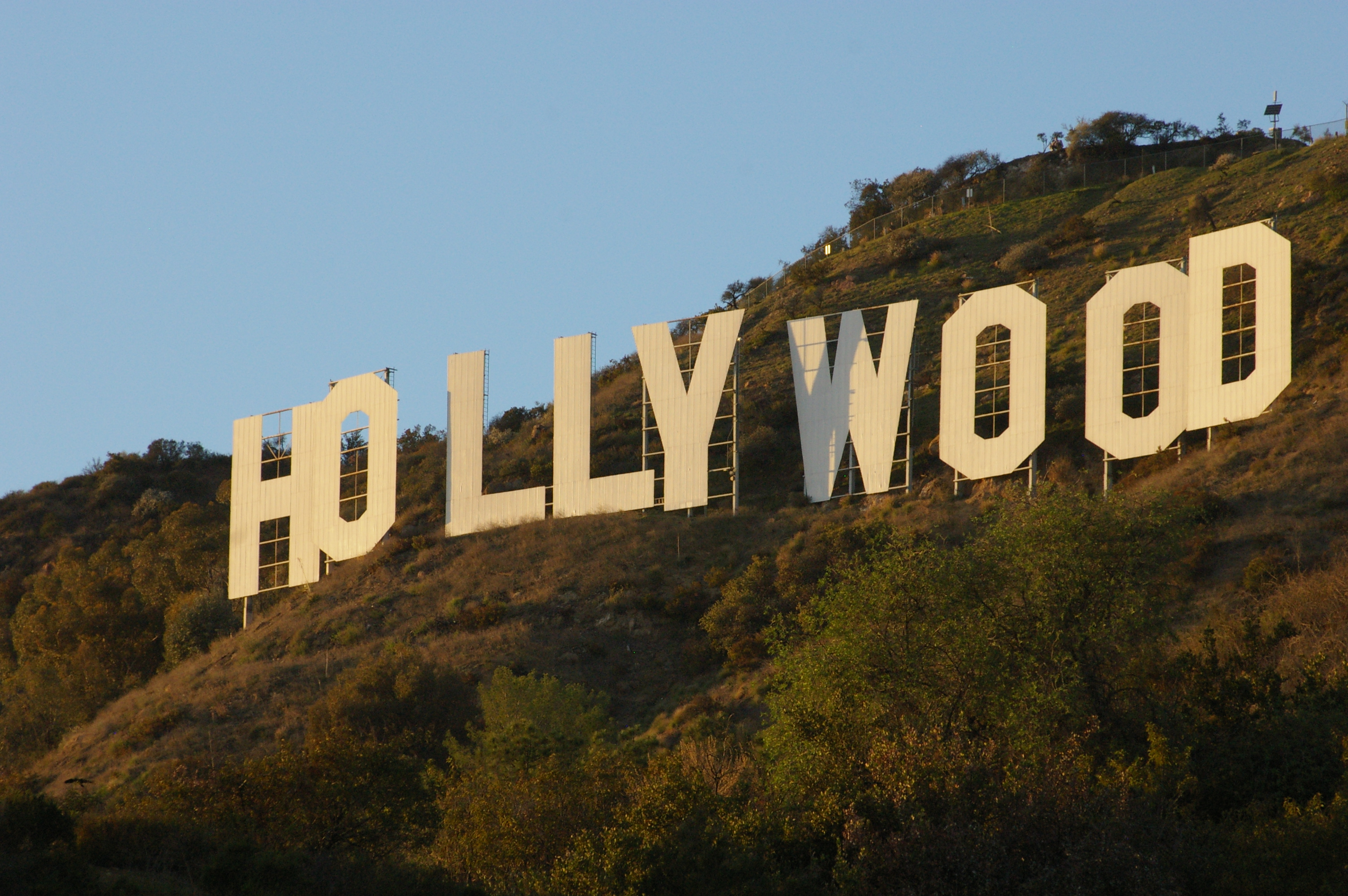 The Hollywood Sign as viewed from the end of Beachwood Drive in the Hollywood Hills.